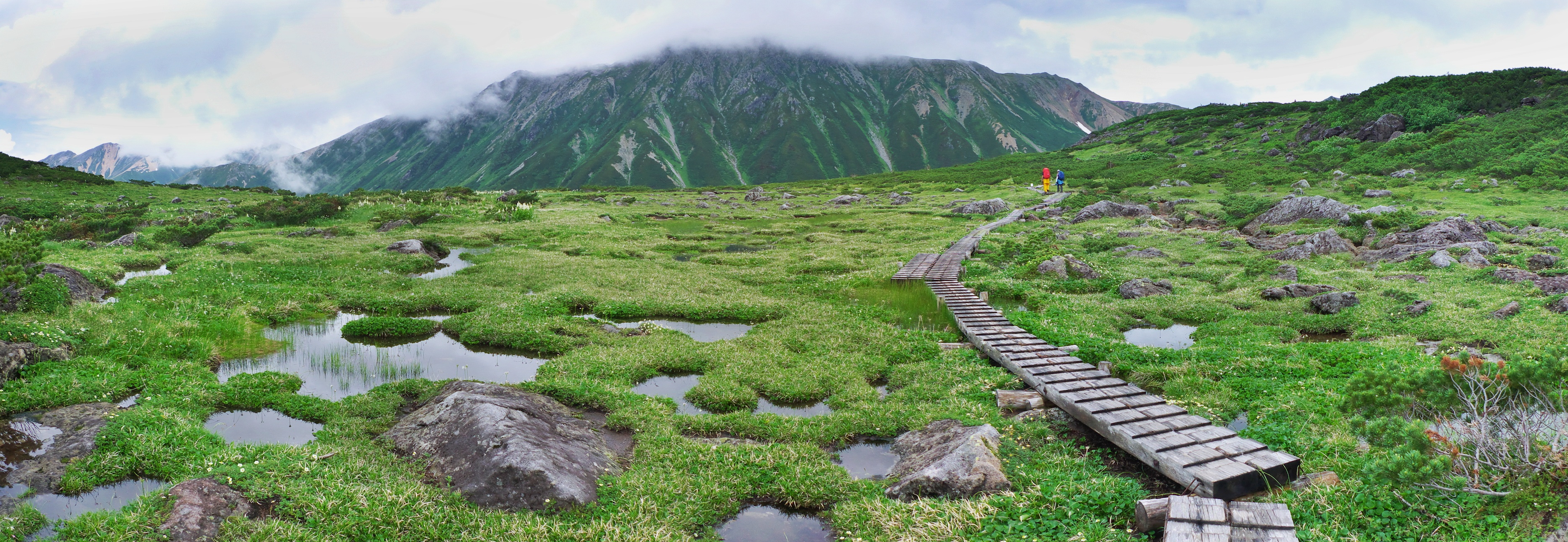 Panoramic of the Swiss Garden (Suisu teien) in Kumonotaira plateau, Hida Mountains, Japan, with Mount Suisho in the background